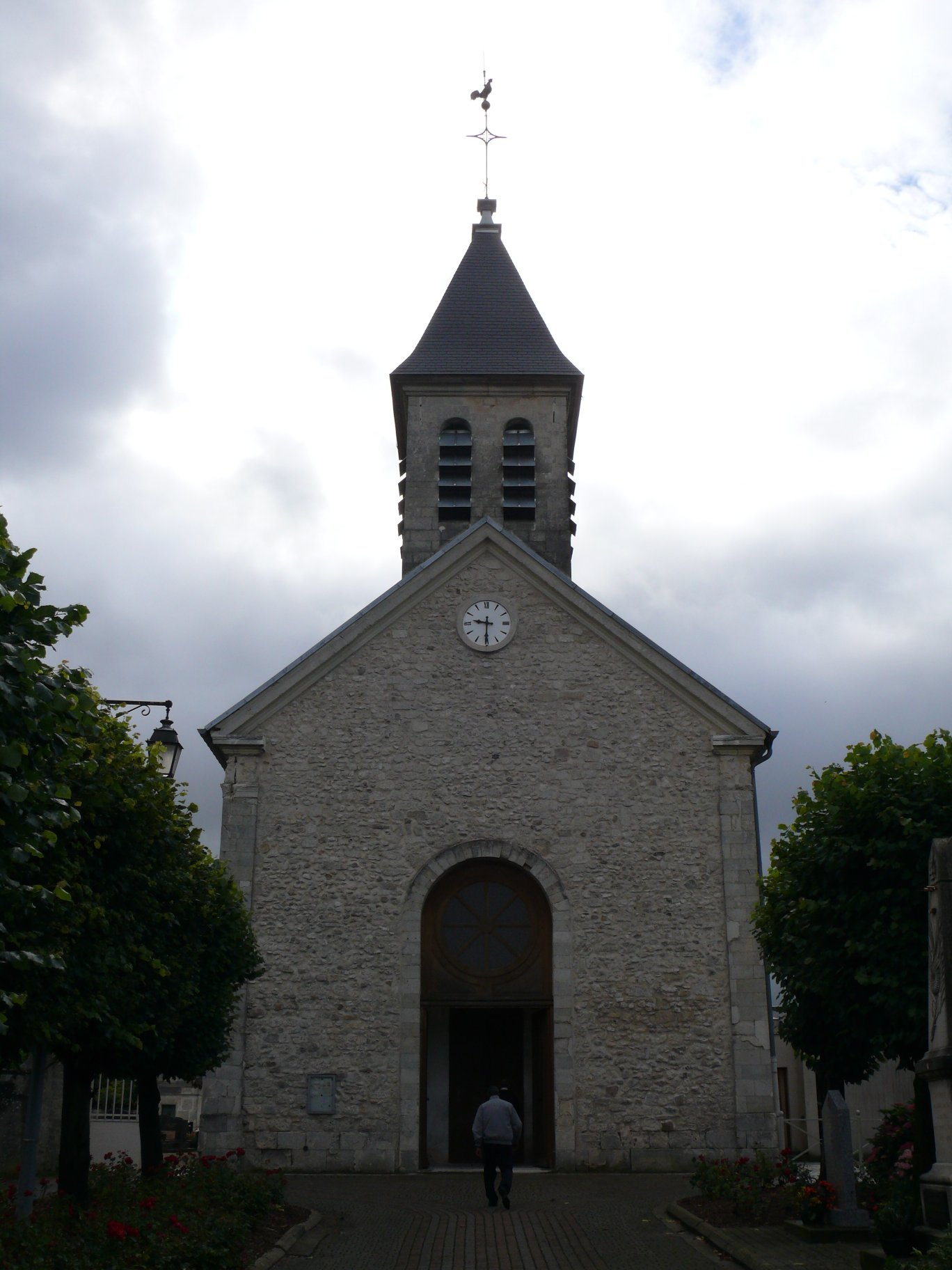 Saint-Peter-and-Saint-Paul's church of Lagny-le-Sec (Oise, Picardie, France).